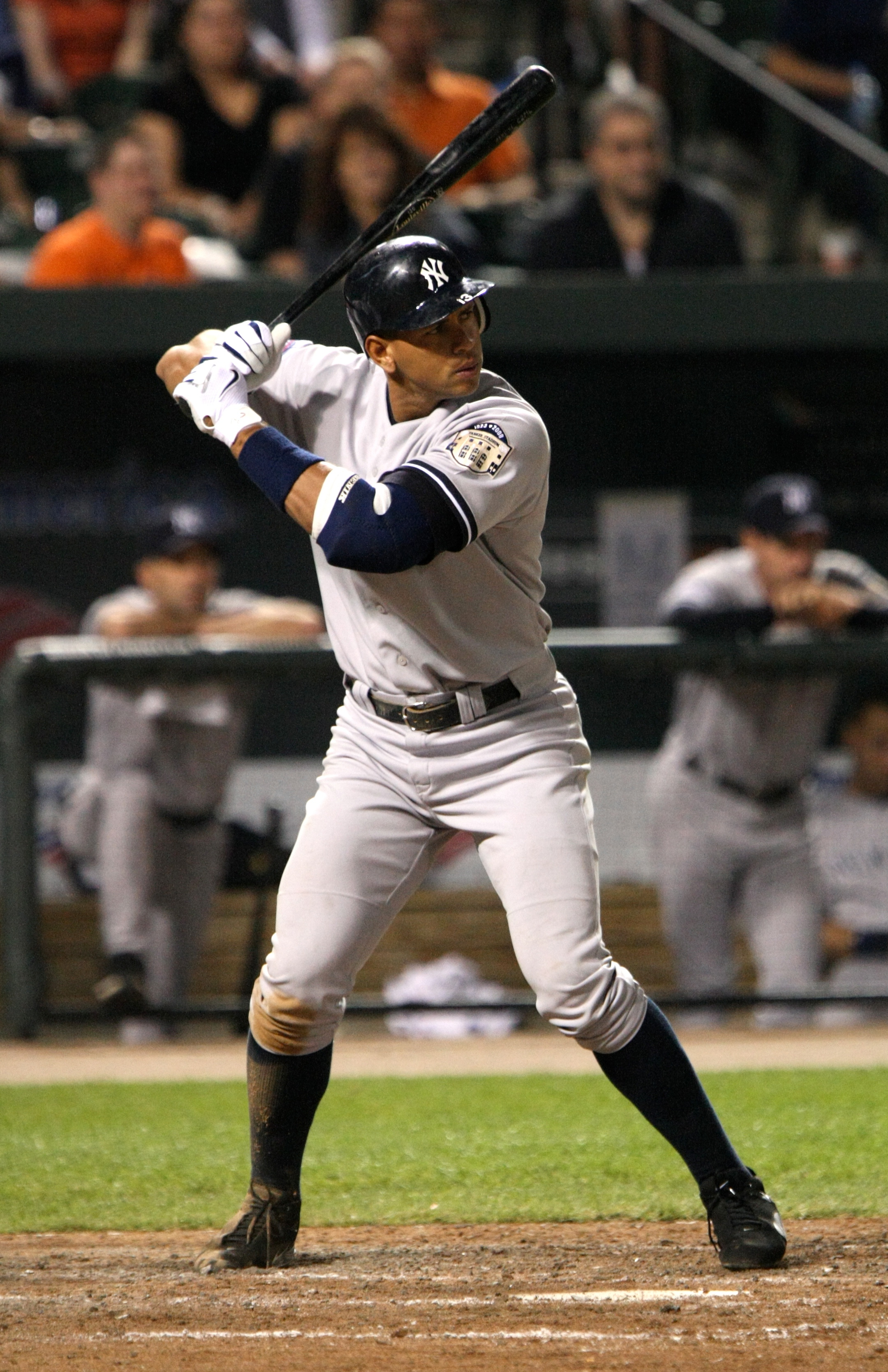 Alex Rodriguez bats in a game on April 19, 2008.